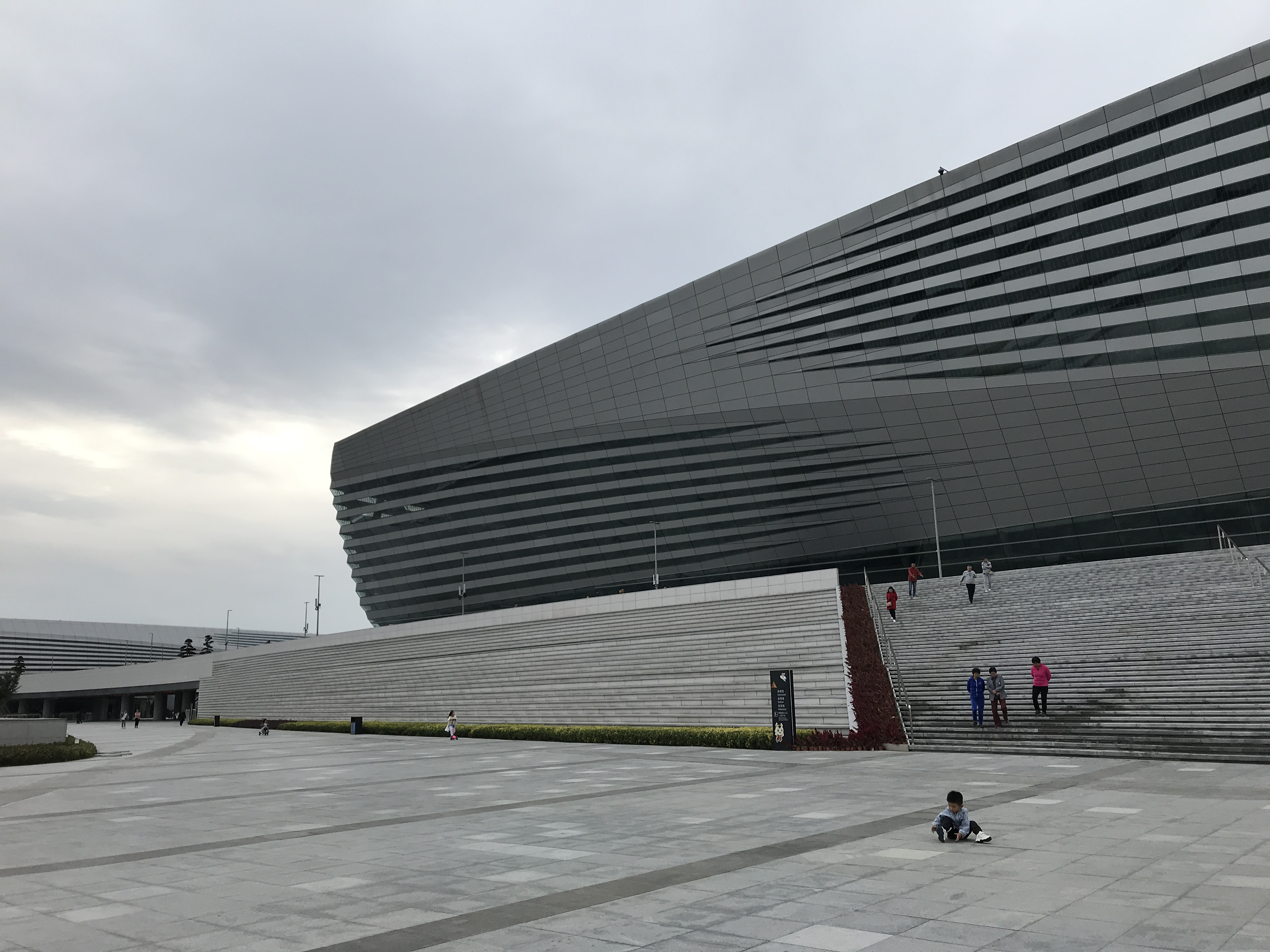 Indoor Stadium of Zhengzhou Olympic Sports Center